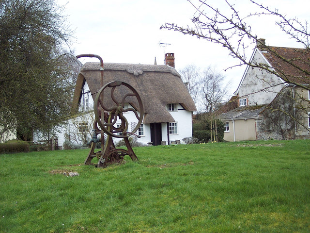 Village Pump, Martin